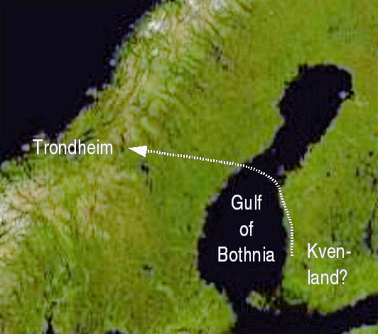 A possible, but incorrect, location of Kvenland and Nór's route to the fjord of Trondheim. Note that Kvenland can be placed elsewhere east of Gulf of Bothnia as well. The selected location on the map is the one with most archaeological finds. Most interpretations locate Kvenland in the less well researched northern coastal area on the Bothnian Bay.